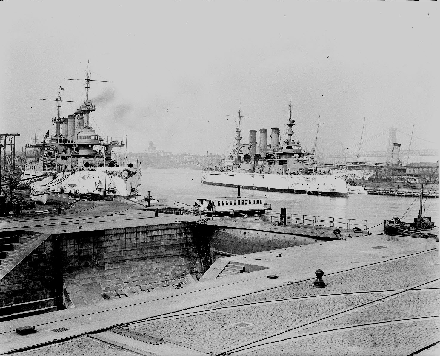 USS Nebraska (BB-14) tied up (on the right) at the Brooklyn Navy Shipyard ca. 1909. The battleship on the left is the USS Connecticut (BB-18).